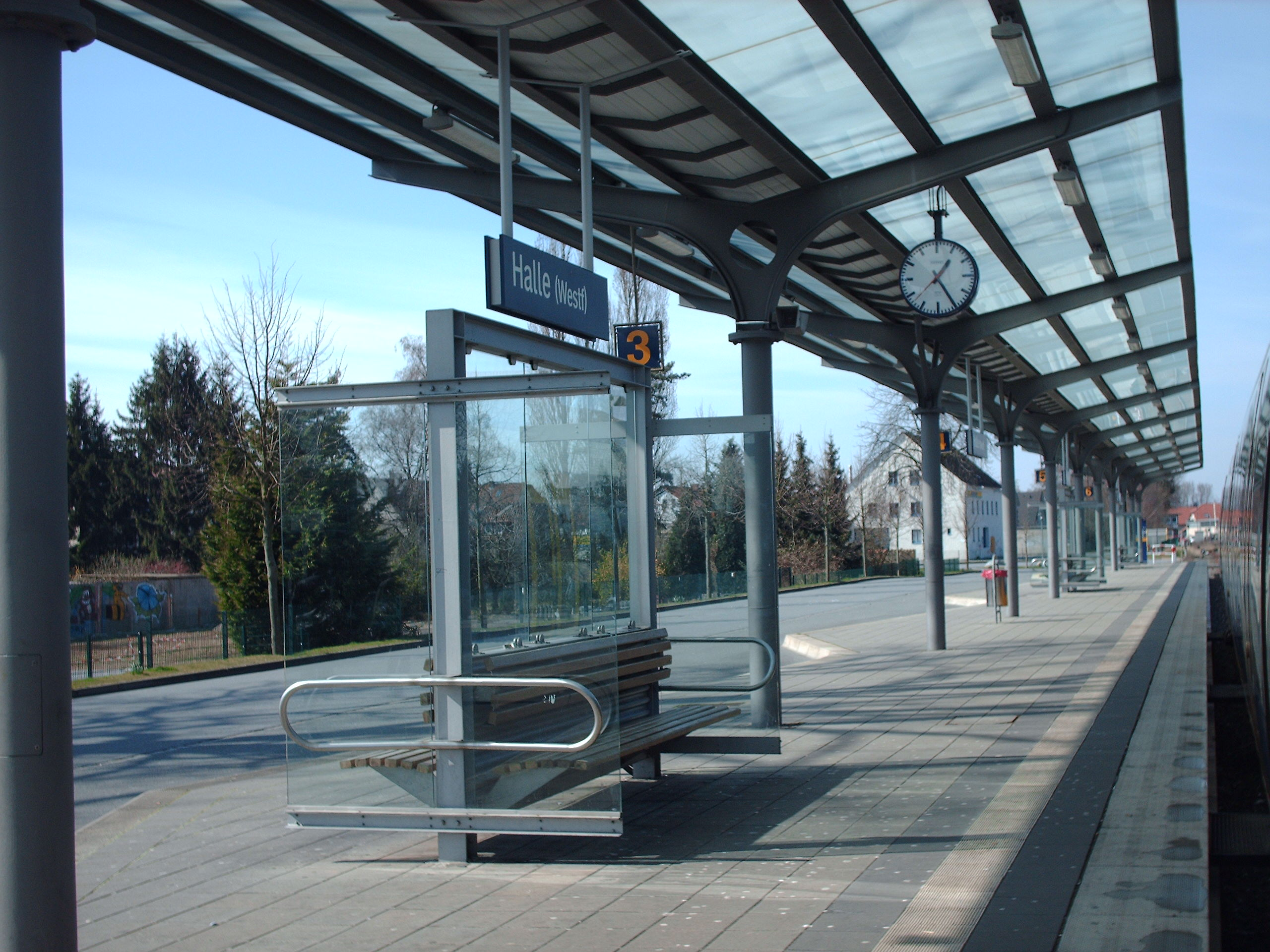 Halle (Westf) station, Halle (Westf.), Germany check usage